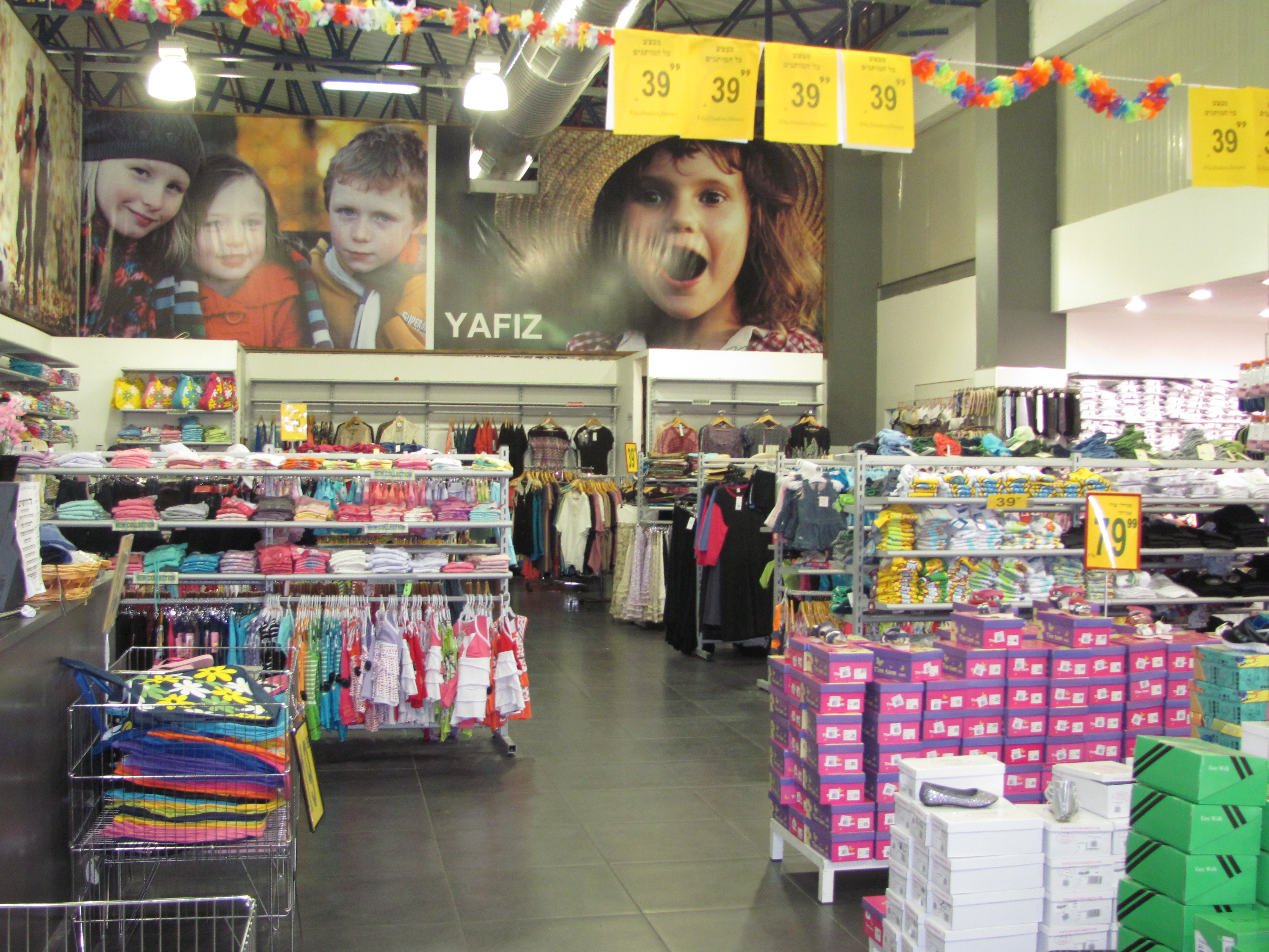 Interior of Yafiz discount clothing store, located in the Rami Levy Shivuk Hashikma (Rami Levy HaShikma Marketing) supermarket in Givat Shaul, Jerusalem, Israel.